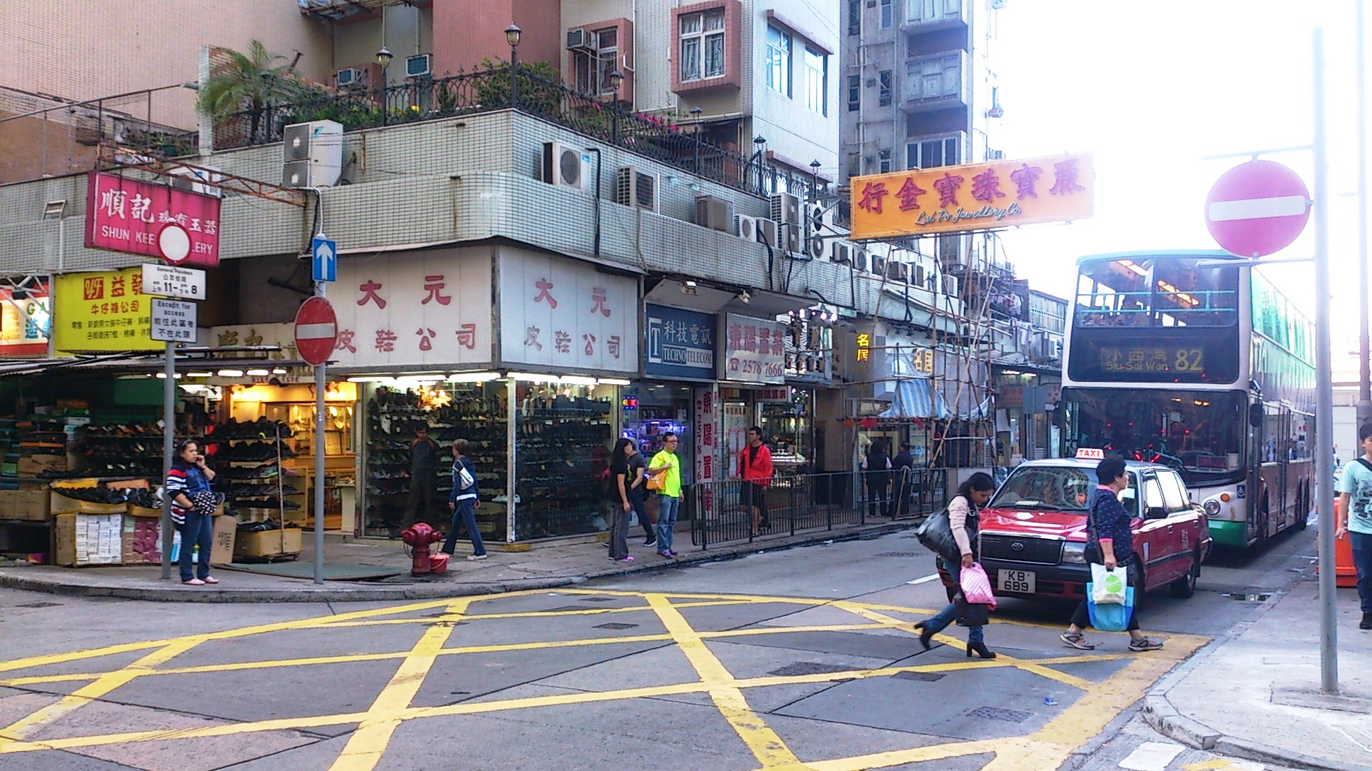 Kam Hong Street near Marble Road